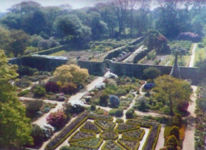 Seigneurie Gardens, Sark. Photo displayed in a showcase and photographed off this showcase, therefore the poor quality and the double licencing.